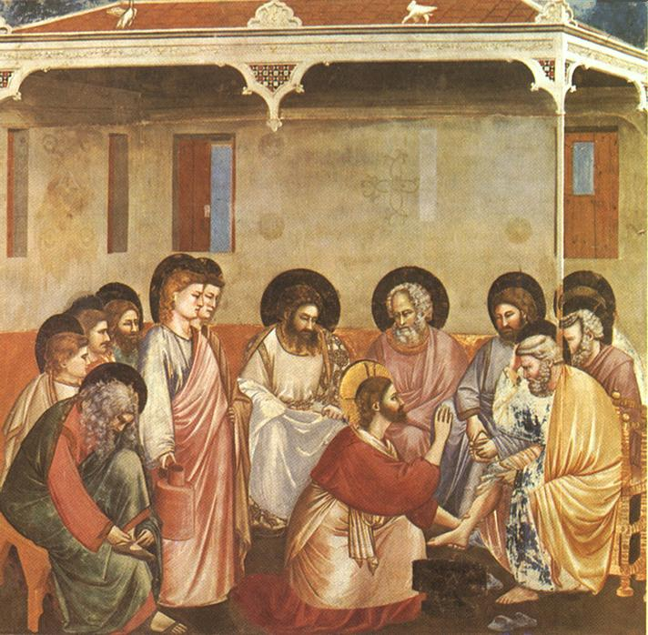 Life of Christ